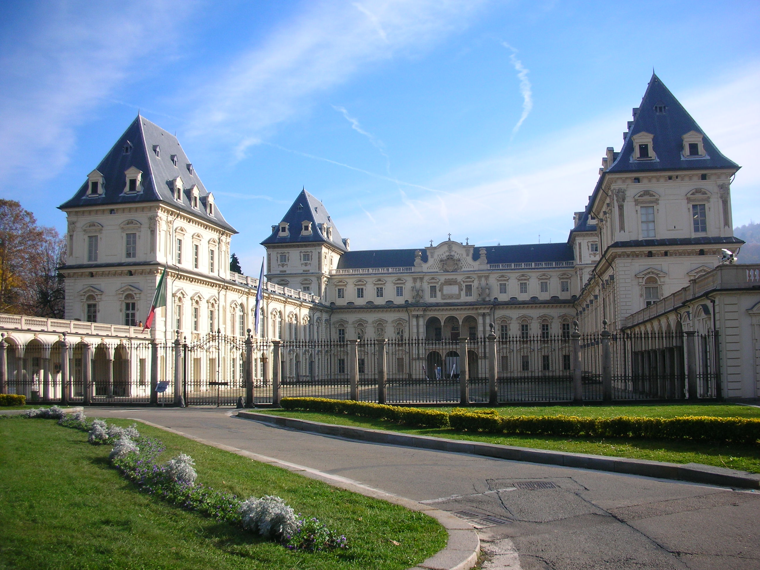 Valentino Castle